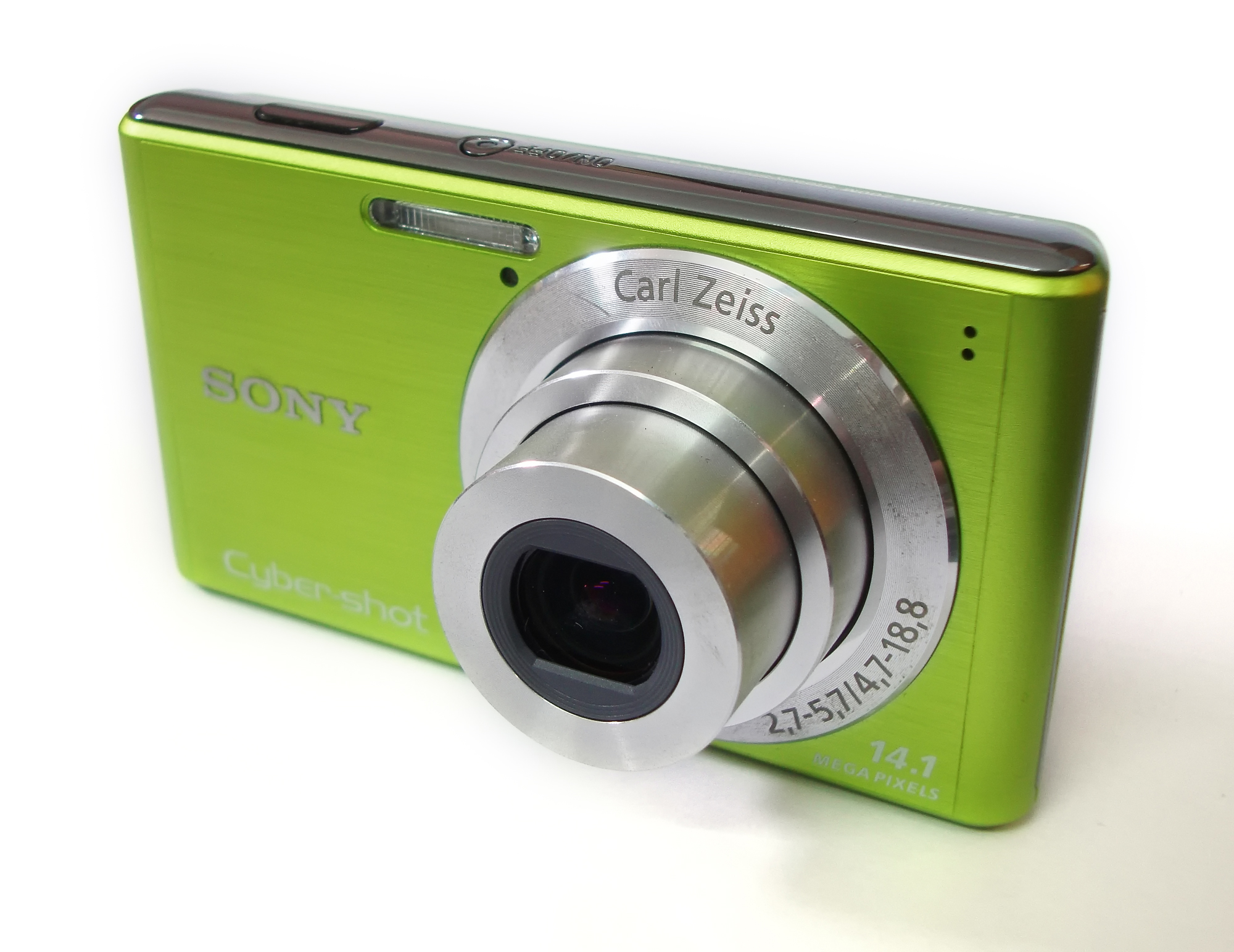 SONY Cyber-shot DSC W530